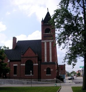 Historic Presbyterian Church in Hartford City, Indiana